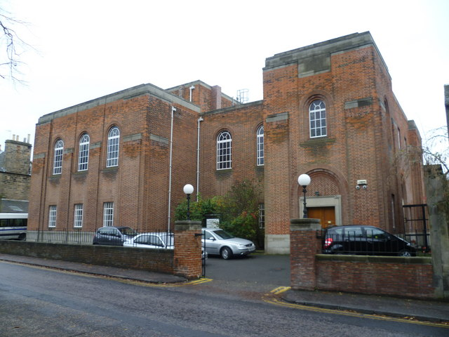 Edinburgh Hebrew Congregation synagogue, 4 Salisbury Road, Edinburgh, seen from the northwest. Completed in 1932 to replace an earlier building that was on the opposite side of the street.